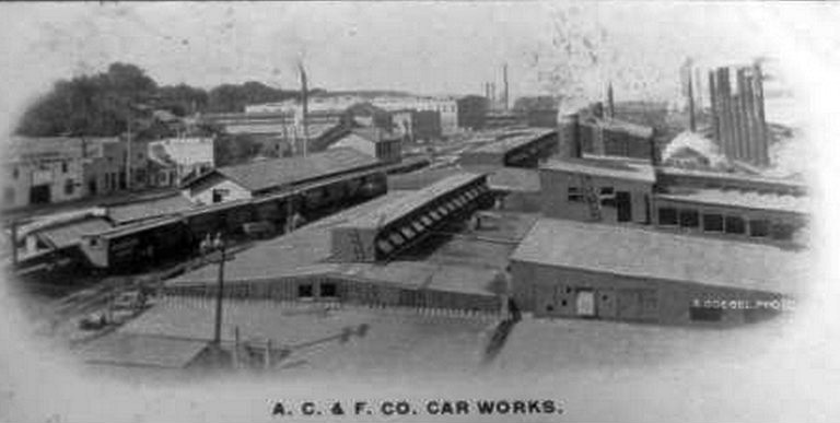 Postcard depiction of the American Car and Foundry Works in St. Charles, Missouri. The company produced railroad cars.